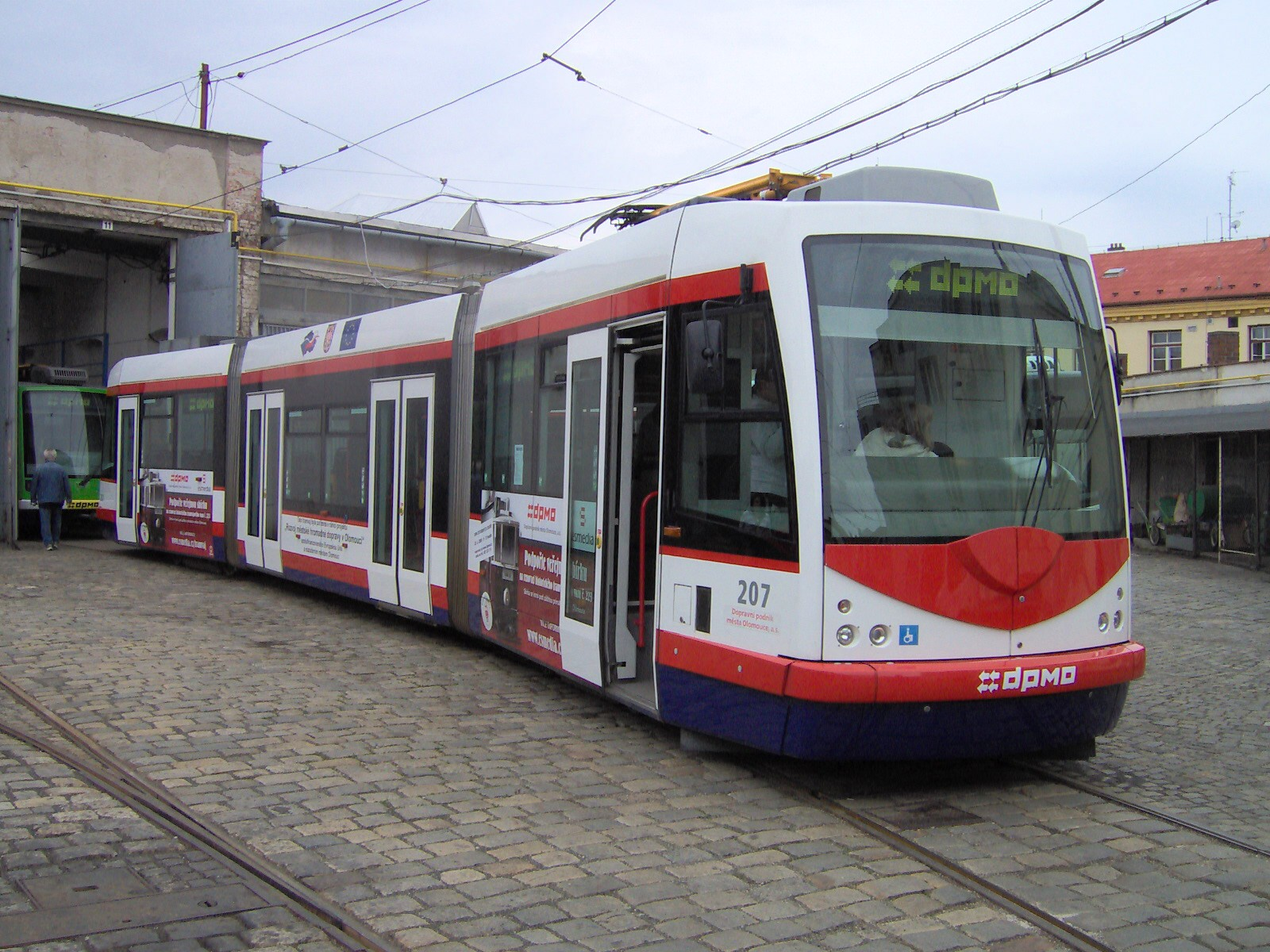 Inekon 01 Trio in tram depot, Olomouc, Czech Republic